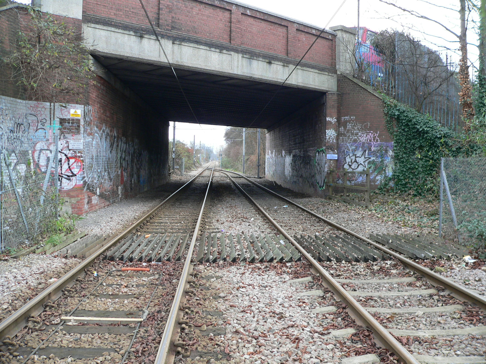 Looking under the bridge that carries Morden Road over the Tramlink network immediately east of Morden Road stop. This section was originally part of the Wimbledon to West Croydon suburban mainline.